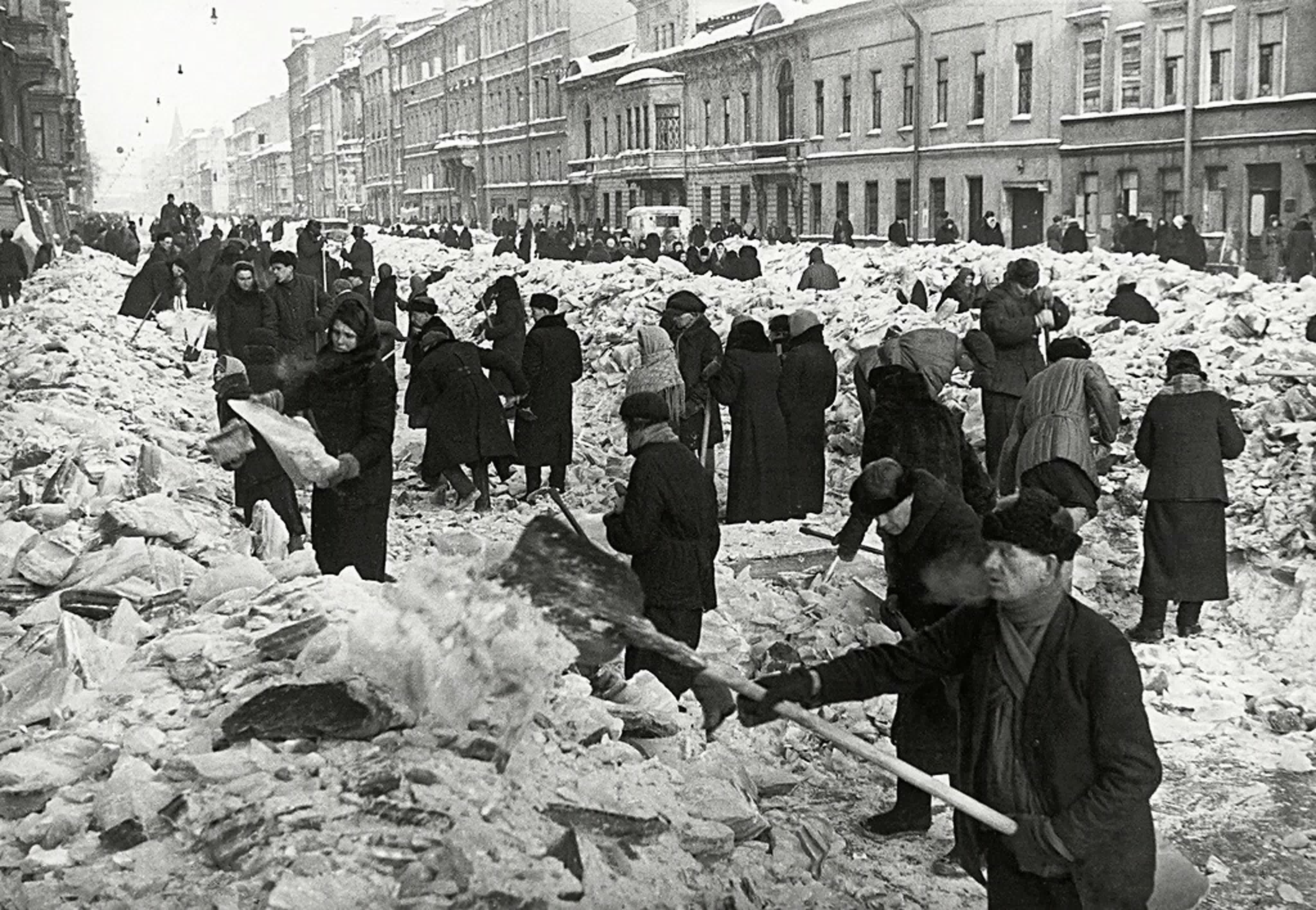 “Cleaning the streets”. Leningradians cleaning a street after the first winter in the besieged city.